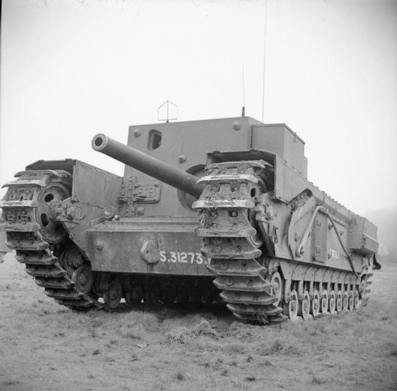 The British Army in the United Kingdom 1939-45 Churchill 3-inch gun carrier at the Armoured Fighting Vehicle School, Gunnery Wing at Lulworth in Dorset, 25 March 1943.